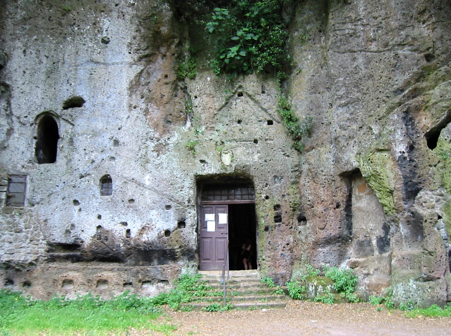 The church Madonna Del Parto, a former etruscan tomb carved into the tuff-stone at Sutri, in Lazio, Italy